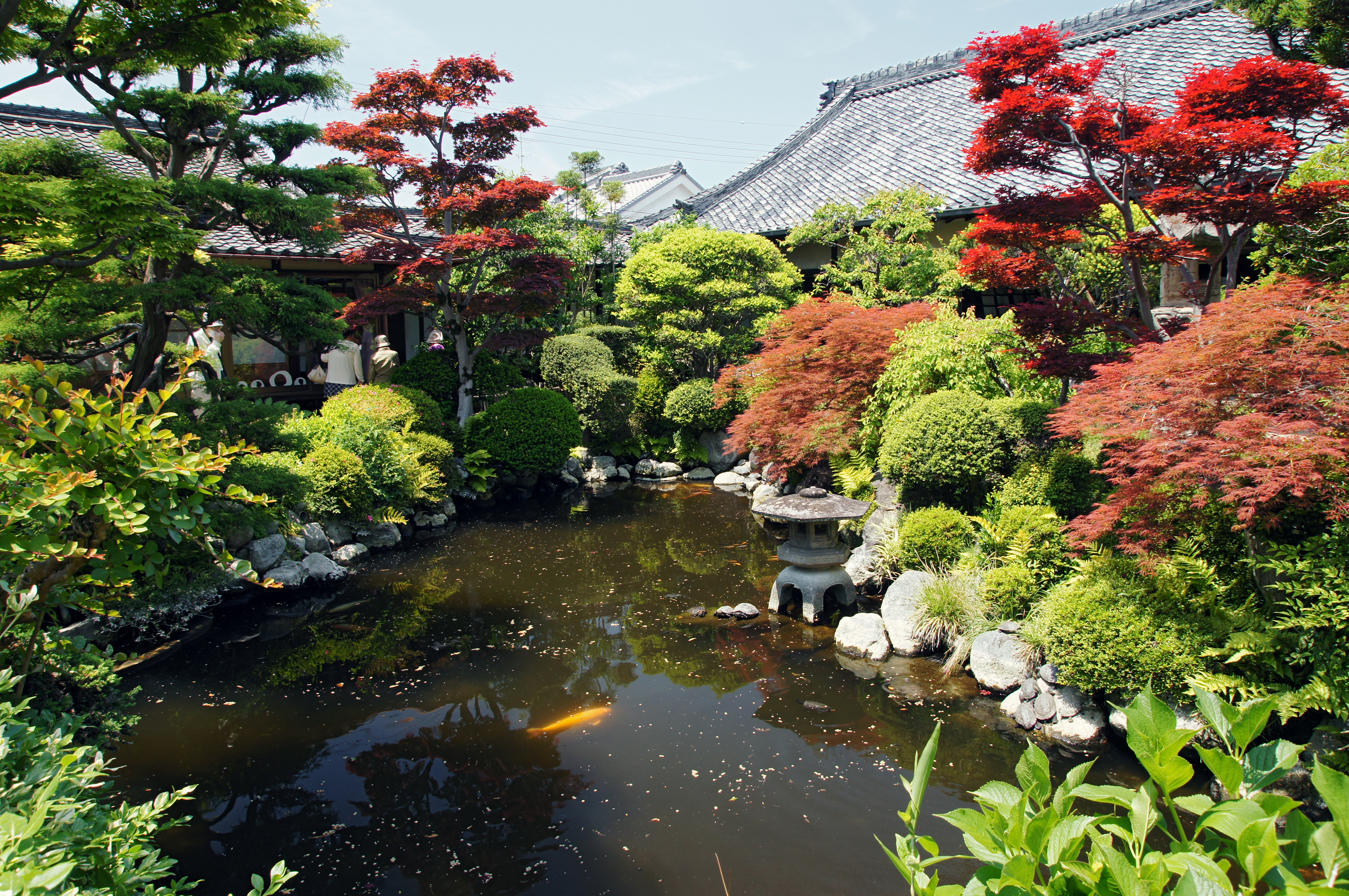 Ofusa-kannon in Kashihara, Nara prefecture, Japan